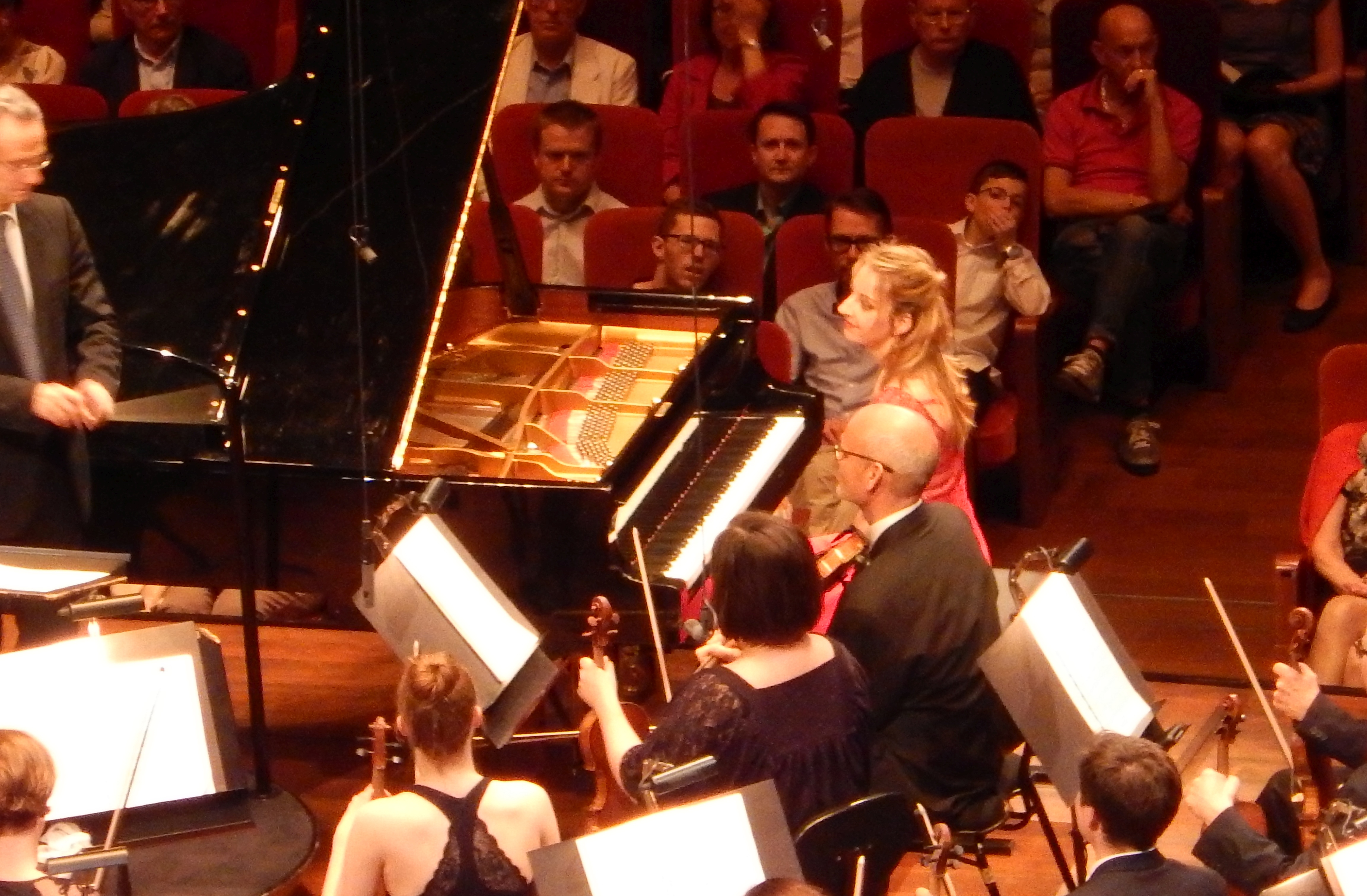 Lise de la Salle (on her 28th birthday), May 8, 2016, Koncerthuset Copenhagen